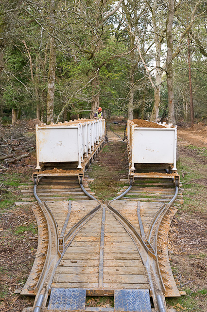 Warwickslade Cutting: running the railway